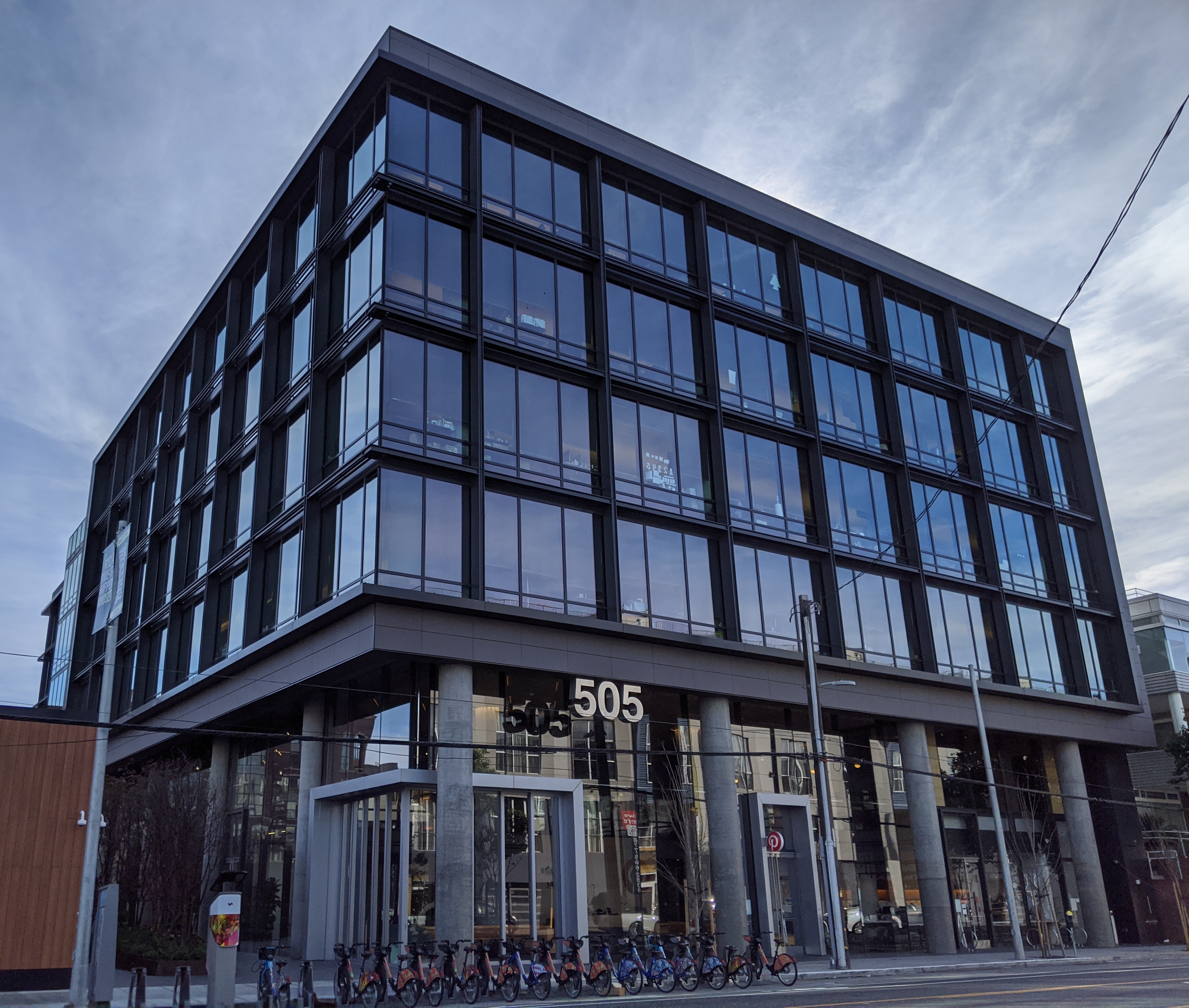 The 505 Brannan Street building of the headquarters of social media company Pinterest in San Francisco, California, USA